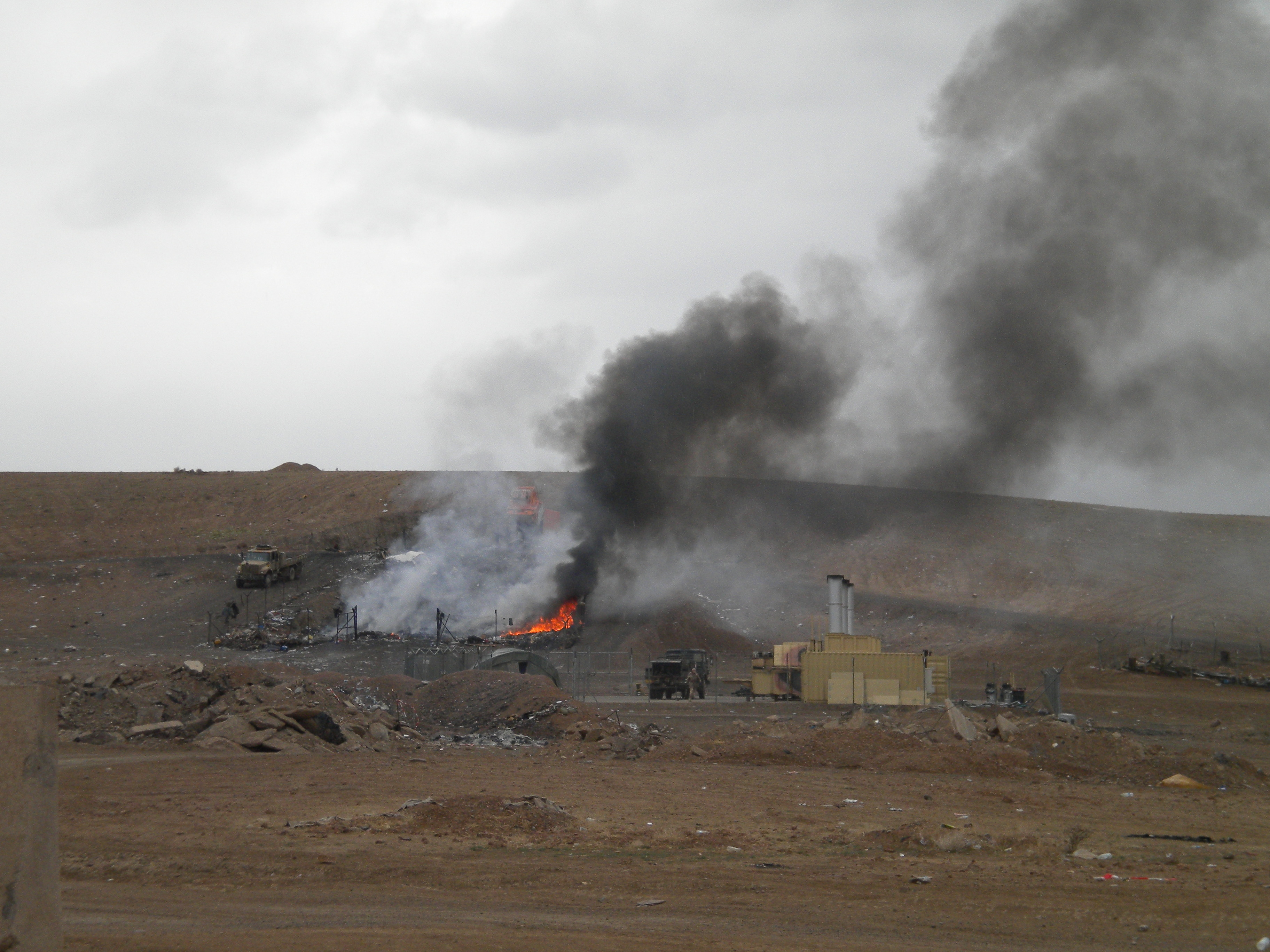 Burn Pit in Camp Holland near Tarin Kowt, Afghanistan